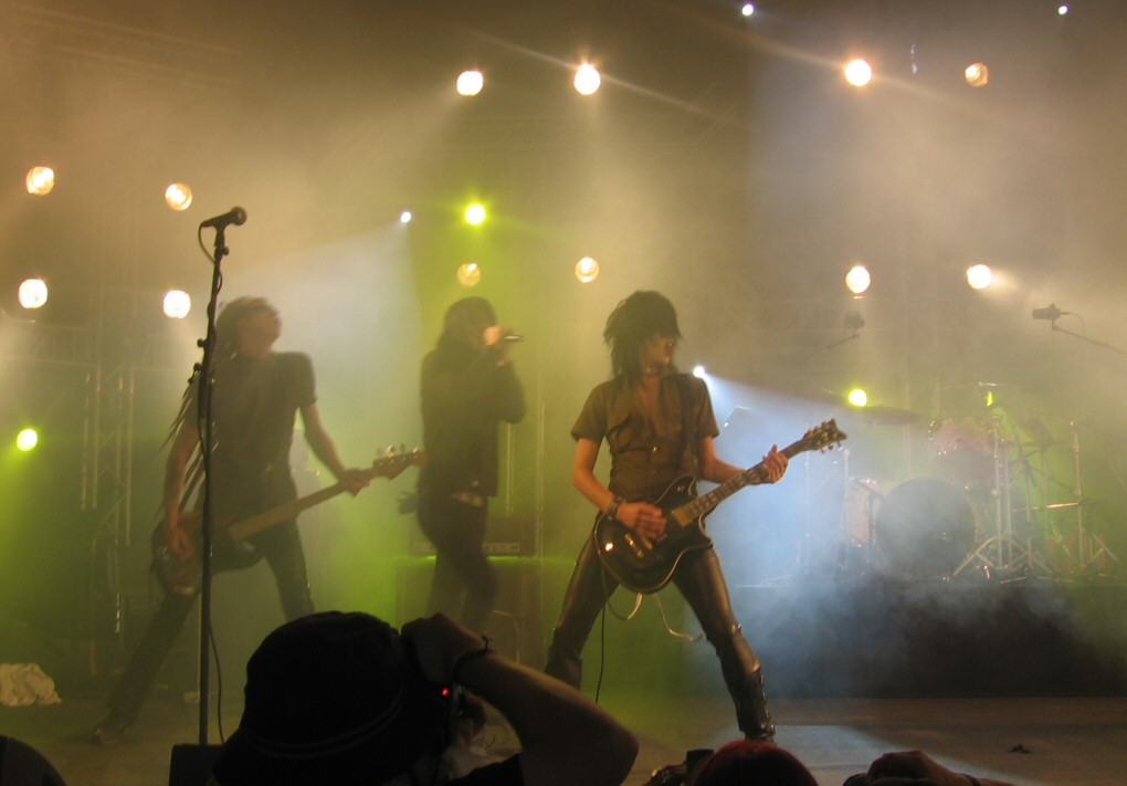 Swedish industrial metal band Deathstars at Tuska Open Air Metal Festival 2006